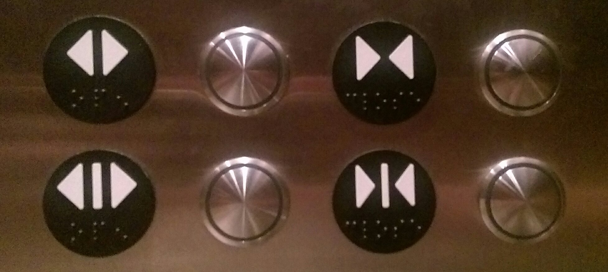 Elevator control panel, cropped to show only dual "door open" and "door close" buttons.